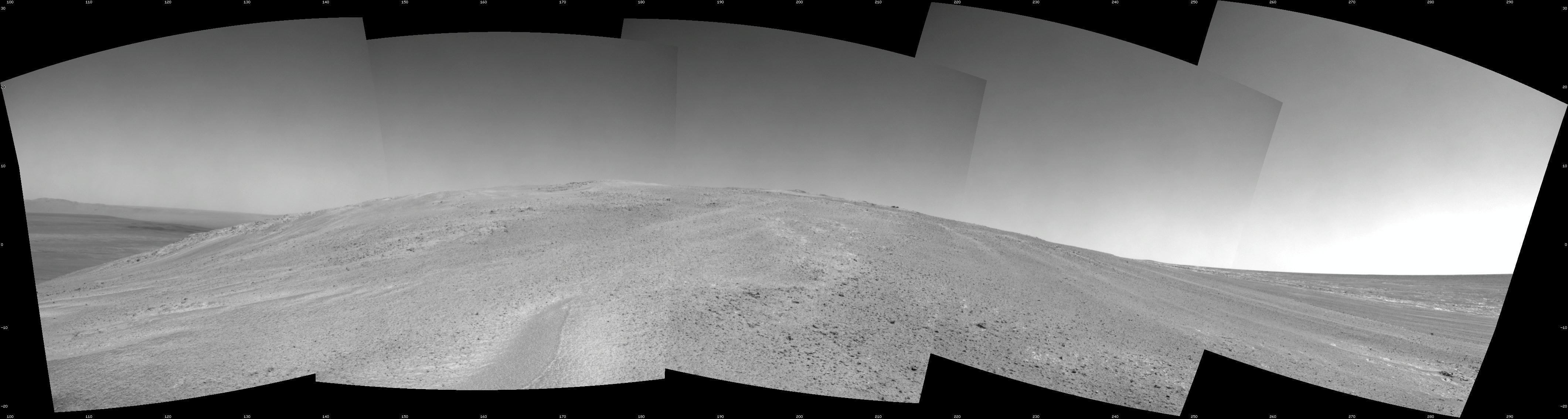 Mars Hill-Climbing Opportunity at 'Solander Point' NASA's Mars Exploration Rover Opportunity captured this southward uphill view after beginning to ascend the northwestern slope of "Solander Point" on the western rim of Endeavour Crater. The view combines five frames taken by Opportunity's navigation camera on the 3,463rd Martian day, or sol, of the rover's work on Mars (Oct. 21, 2013). Opportunity had begun climbing the hill on Sol 3451 (Oct. 8) and completed three additional uphill drives before reaching this point. The rover team is using the rover to investigate outcrops on the slope. The northward-facing slope will tilt the rover's solar panels toward the sun in the southern-hemisphere winter sky, providing an important energy advantage for continuing mobile operations through the upcoming winter. The scene extends from east-southeast on the left (with a glimpse across Endeavour Crater) to west-northwest on the right. It is presented as a seam-corrected cylindrical projection.